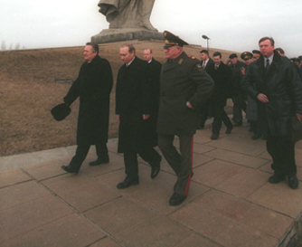 VOLGOGRAD. Visiting the memorial complex “To the Heroes of the Battle of Stalingrad” on Mamayev Hill.